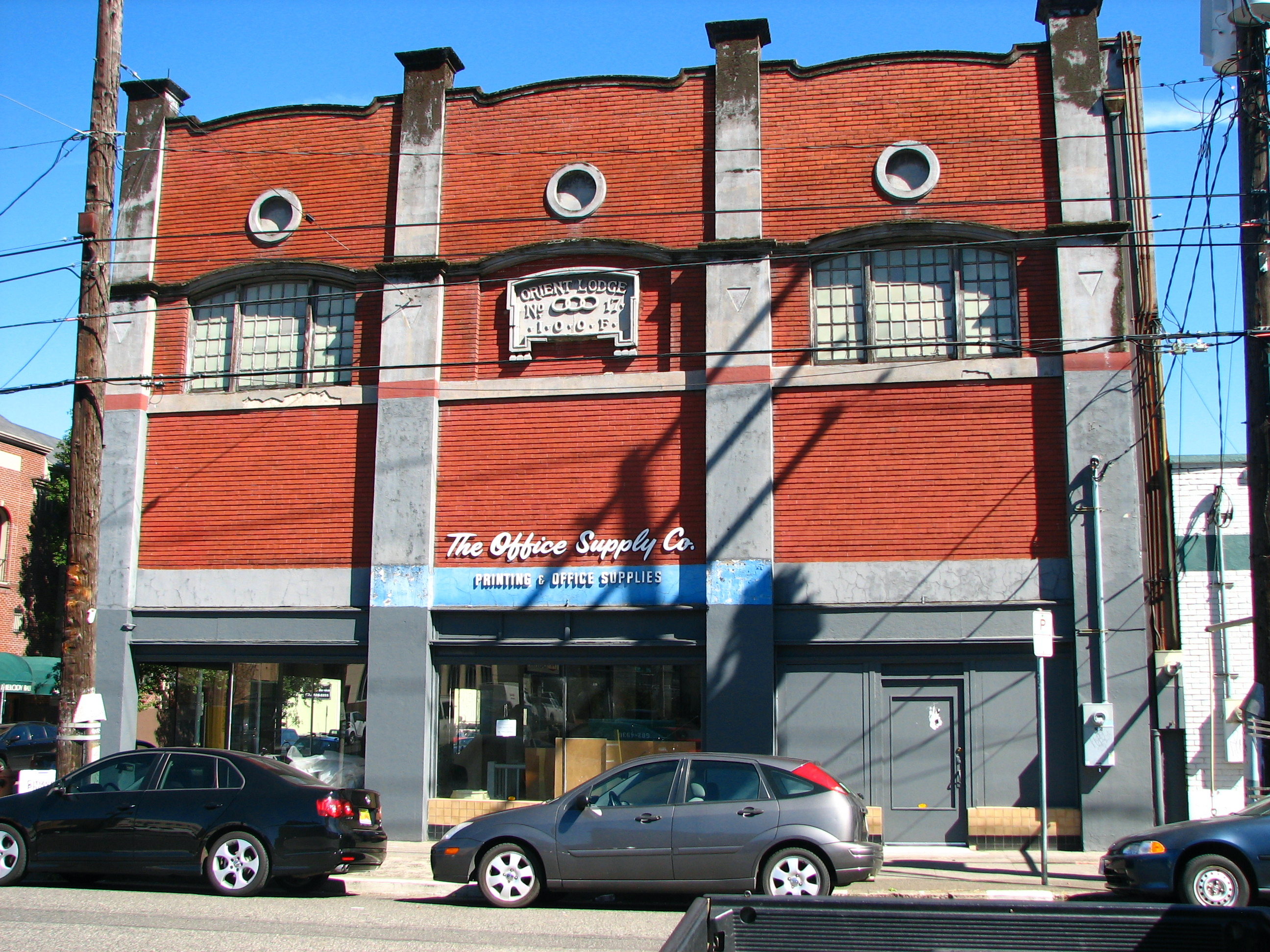 The historic Orient Lodge IOOF #17 (built 1907), located at 706-710 Southeast 6th Avenue in Portland, Oregon, United States, is a contributing resource within the East Portland Grand Avenue Historic District.